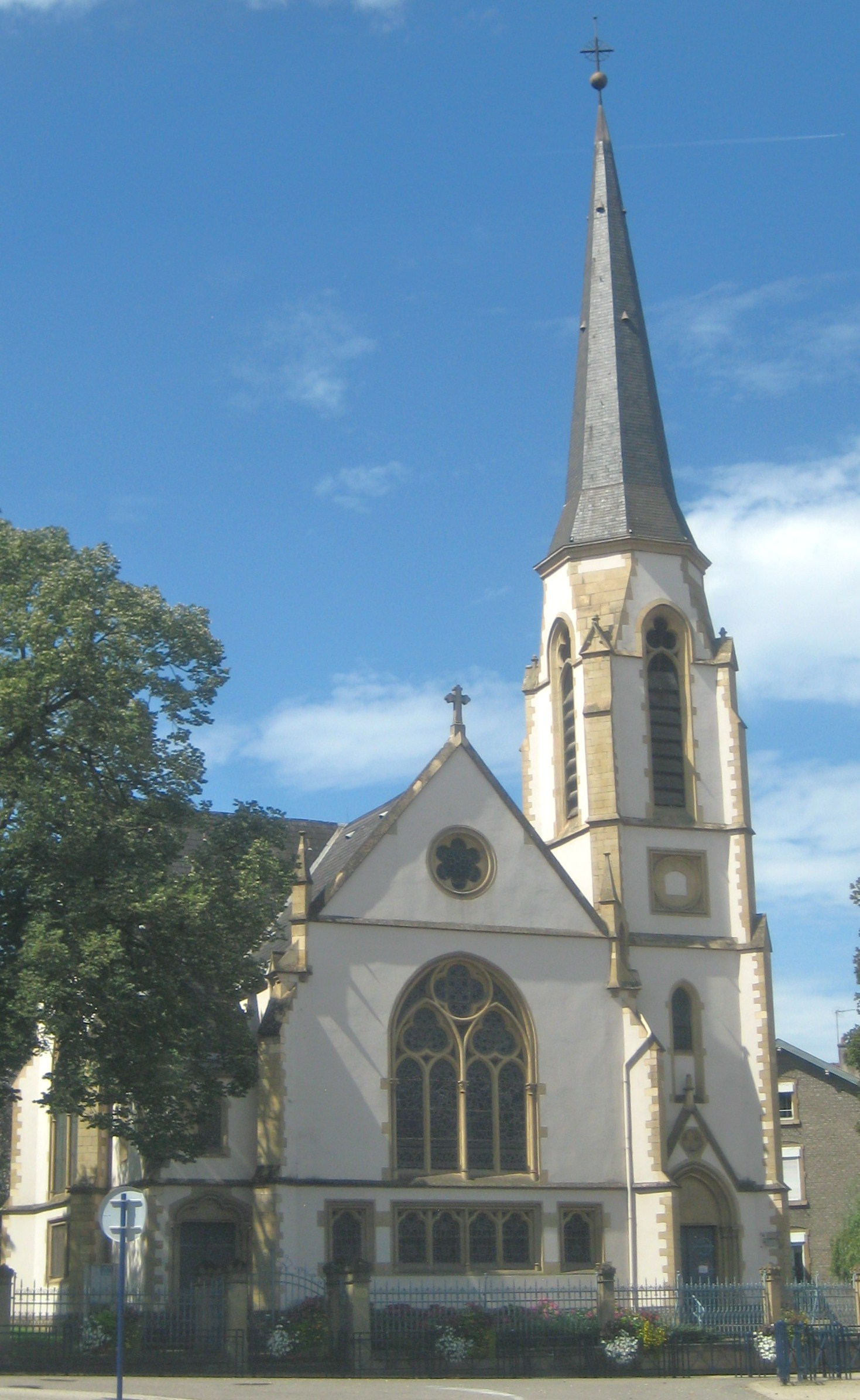 Description temple Rombas 1900 Date11 August 2011Sourcemon appareil photoAuthorAimelaimePermission (Reusing this file) temple Rombas 1900